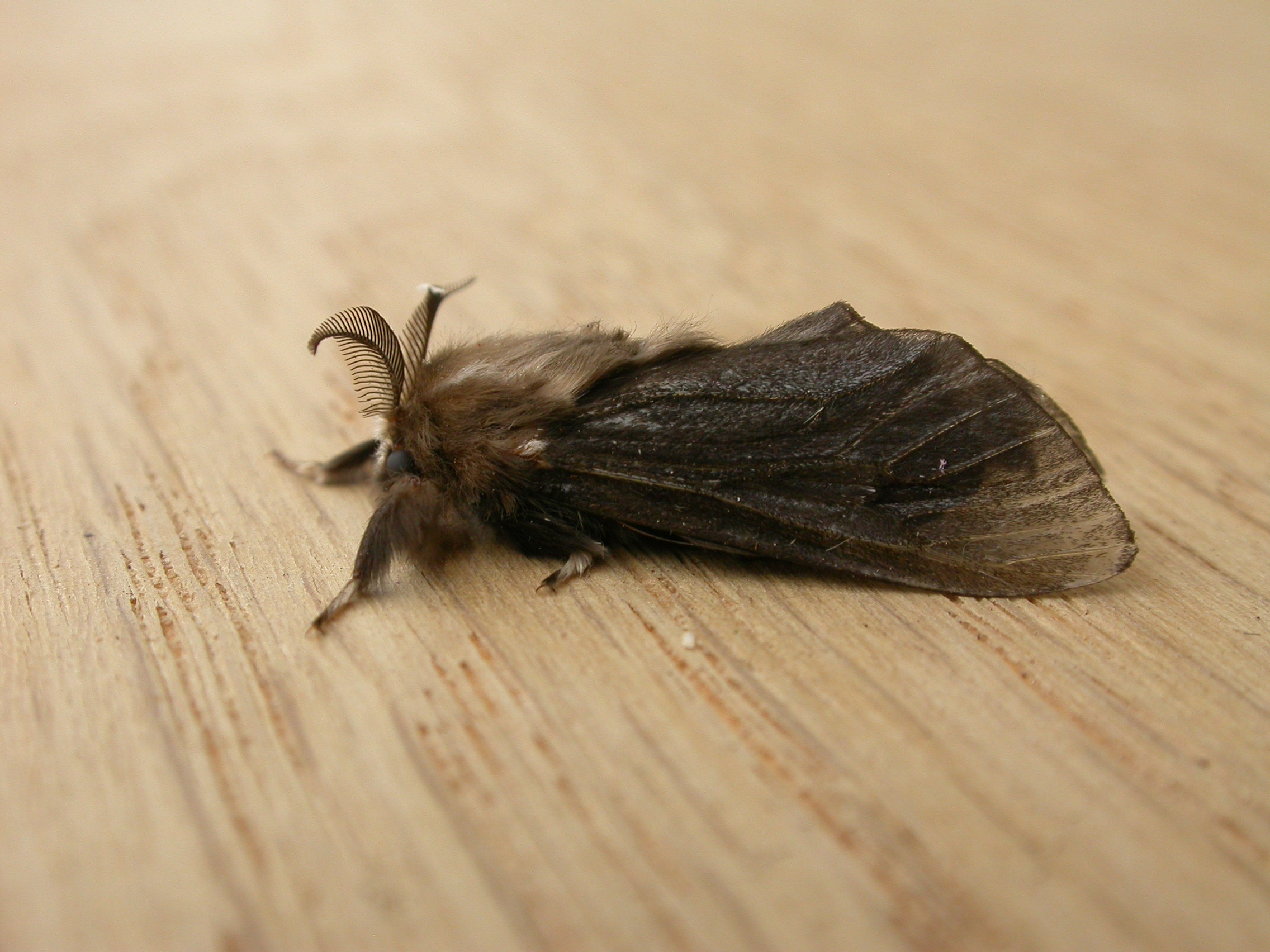 Clania ignobilis (Walker, 1869), to MV light, Aranda, ACT, 26/27 February 2009